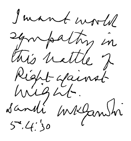 "I want world sympathy in this battle of right against might." Dandi, M. K. Gandhi, April 5th, 1930.